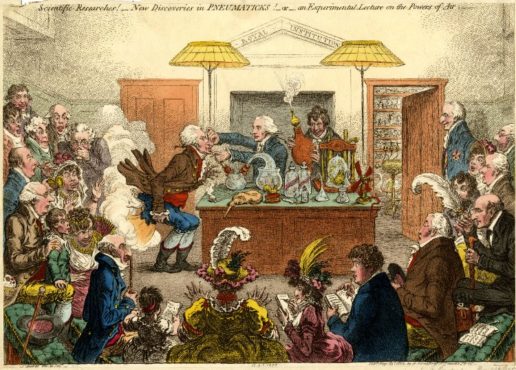 "New Discoveries in Pneumatics". Humphry Davy (1778-1829) lecturing at the Royal Institution. Print by James Gillray.